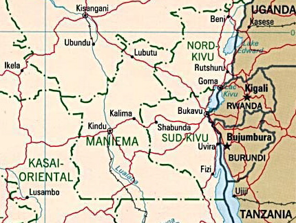 Section of PD map found at here.